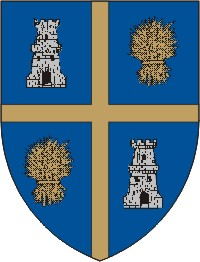 Coat of arms of Olt County, Romania.